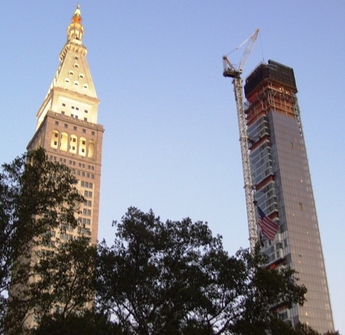 Photograph of One Madison Square Park under construction, along with the MetLife Tower, in Madison Square, Manhattan, New York City